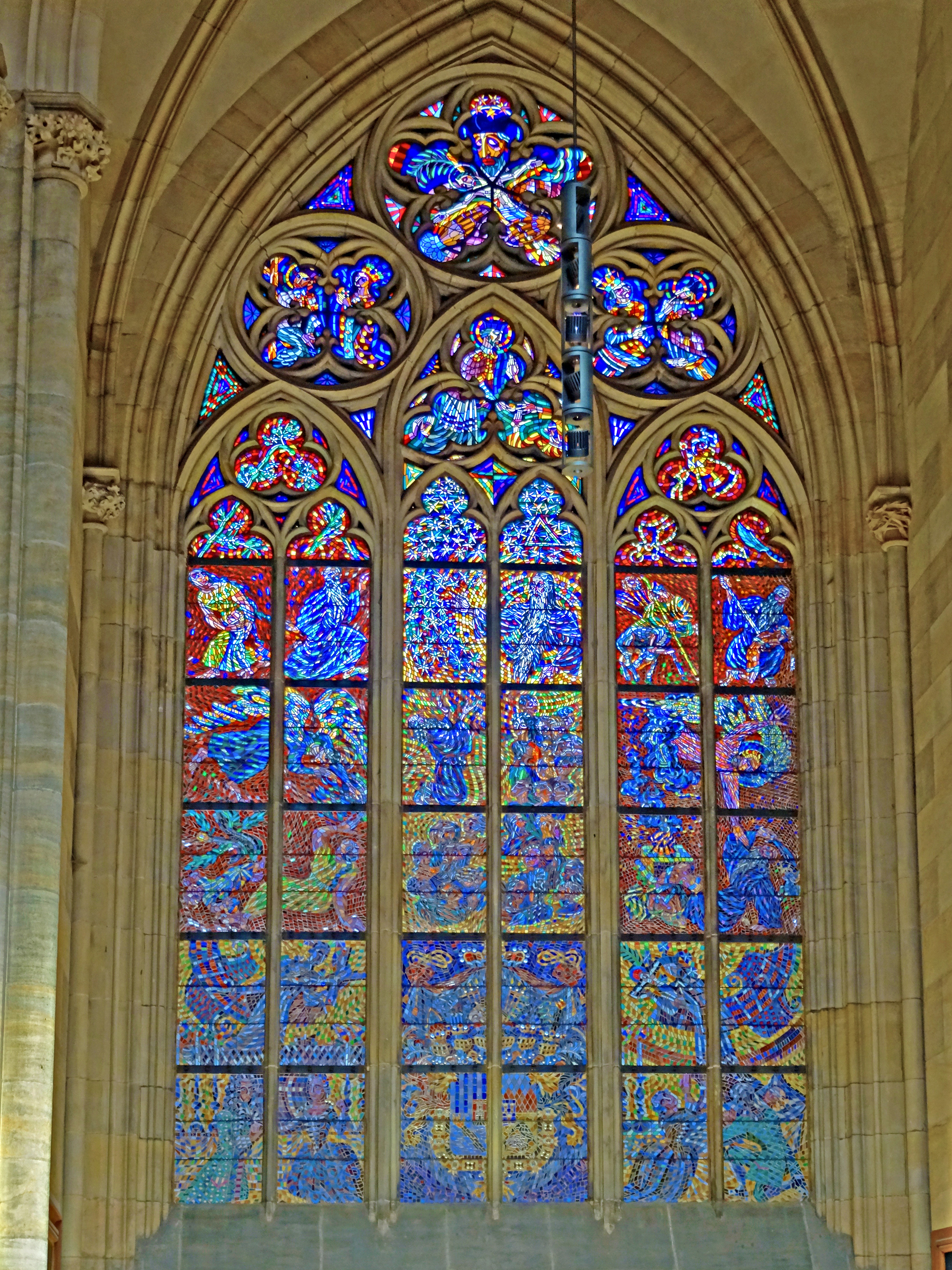 Stained glass window in the Schwarzenberg chapel of the Prague St. Vitus Cathedral